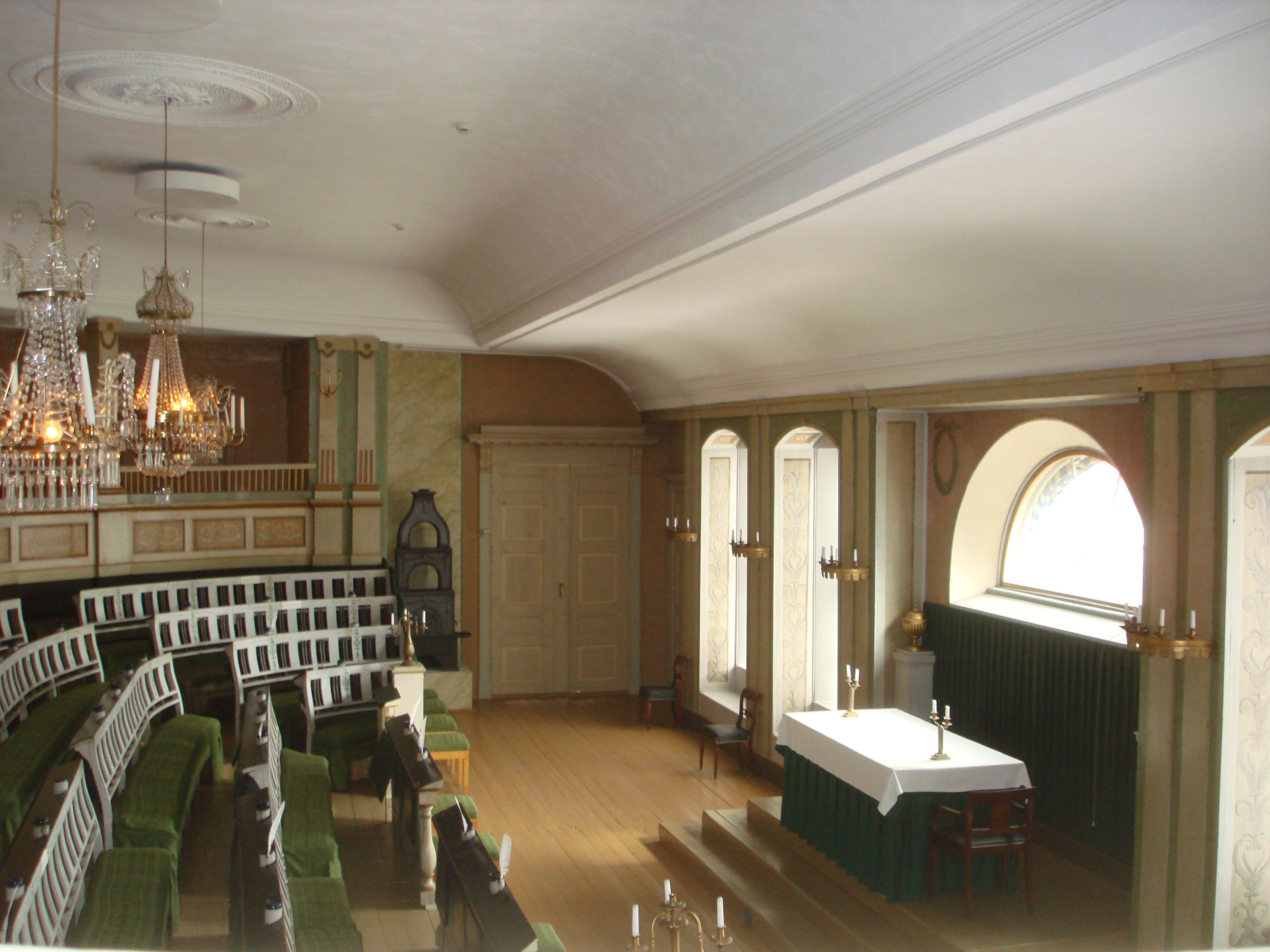 Assembly room of Norwegian Parliament 1814-1854, now at the Norsk Folkemuseum